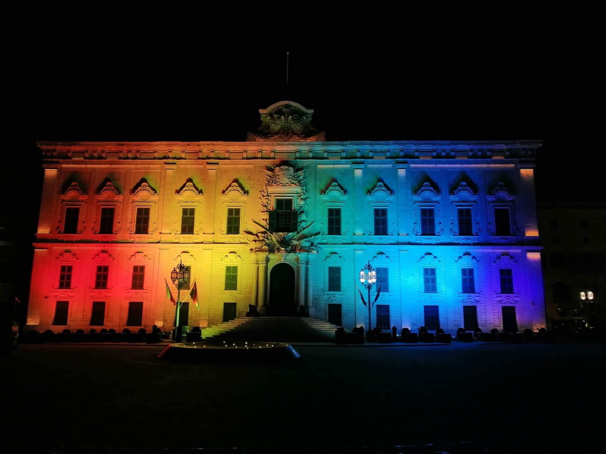 OPM with LGBT flag lights This media is about Maltese cultural property with inventory number 01127.